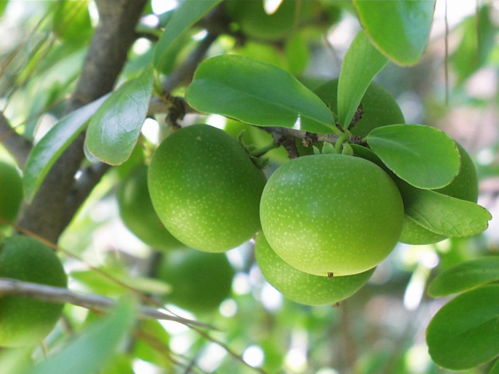 Fruit of Dovyalis caffra